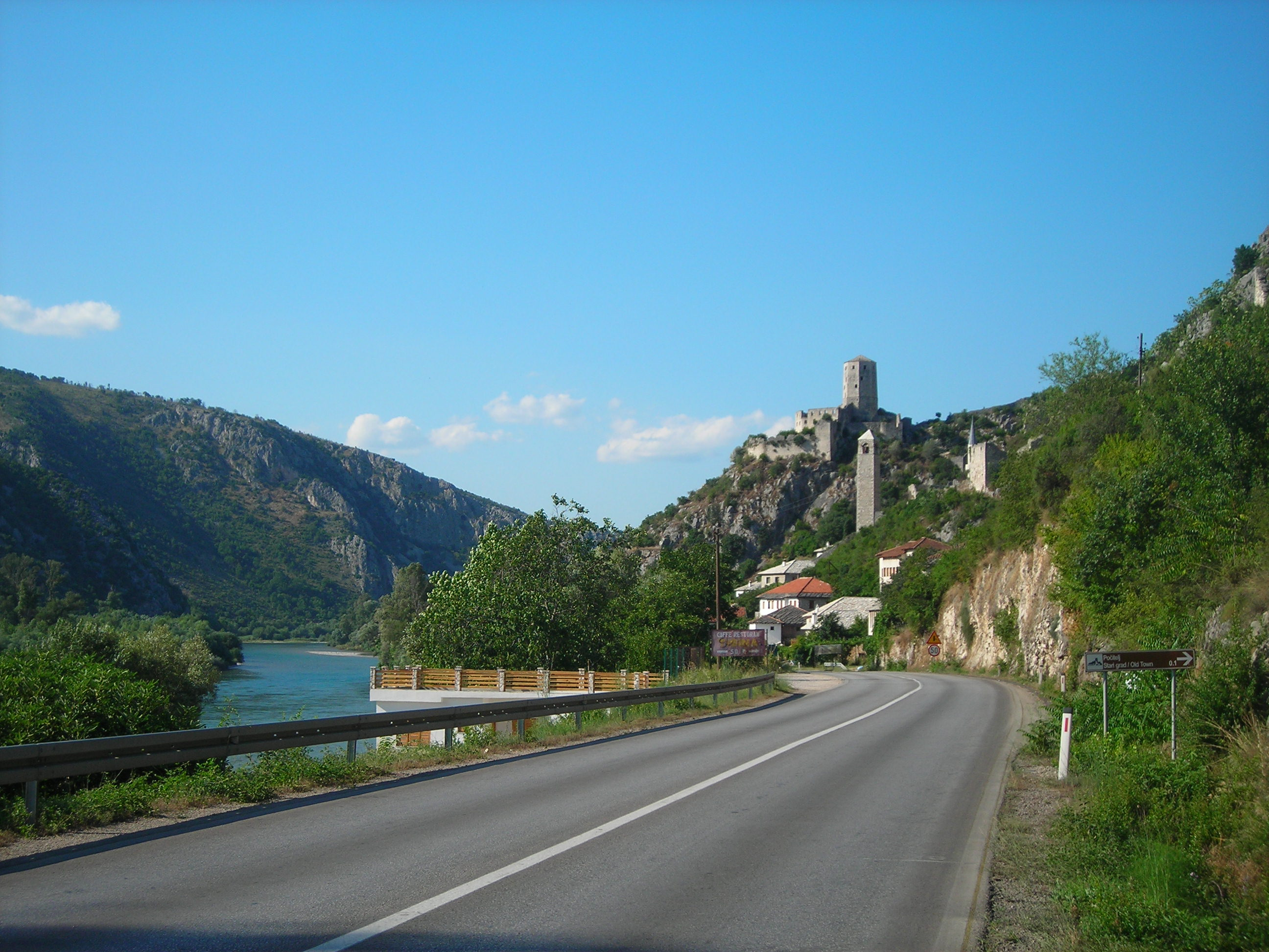 Road M17/E73 south of Počitelj, Bosnia-Herzegovina